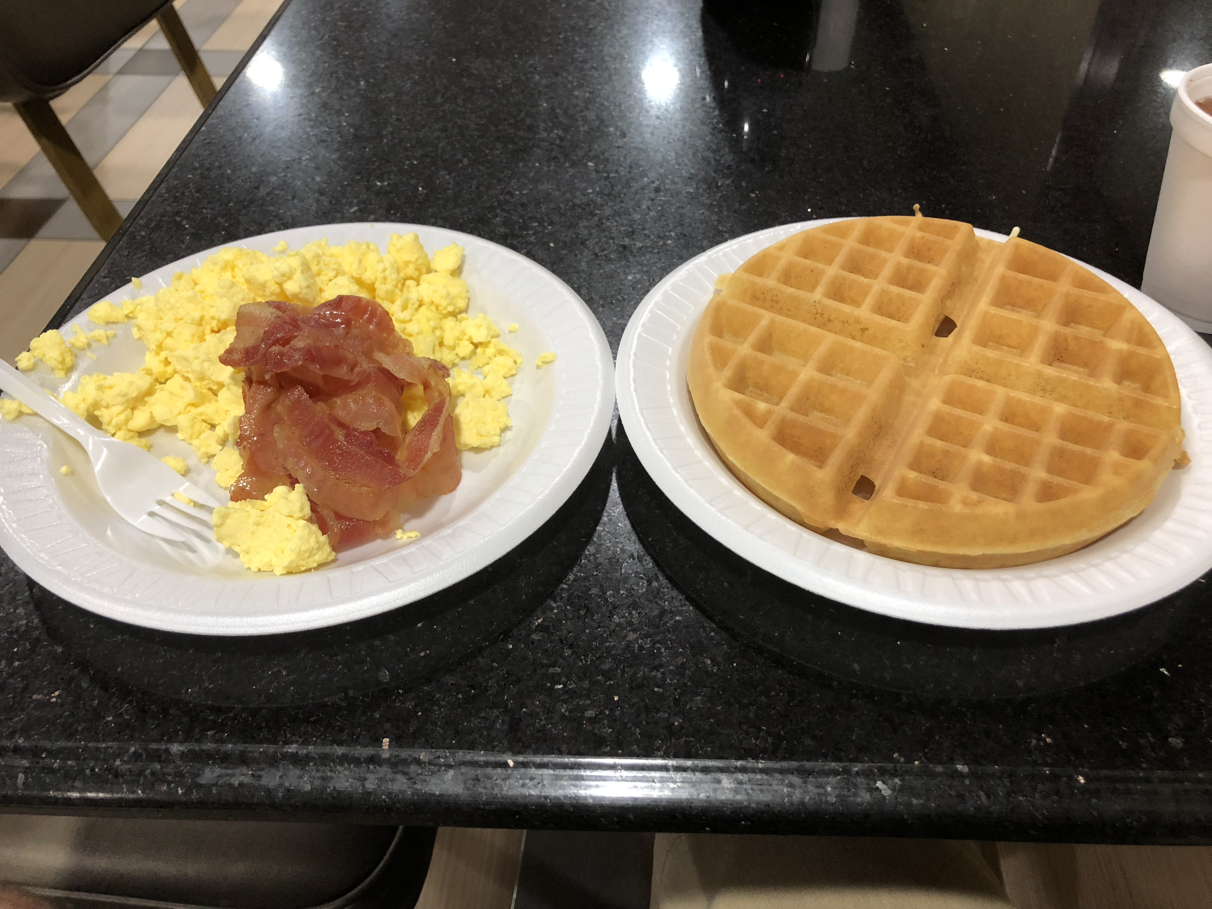 Scrambled eggs, bacon and a waffle served as part of breakfast at the Ramada by Wyndham Rochelle Park Near Paramus in Rochelle Park Township, Bergen County, New Jersey